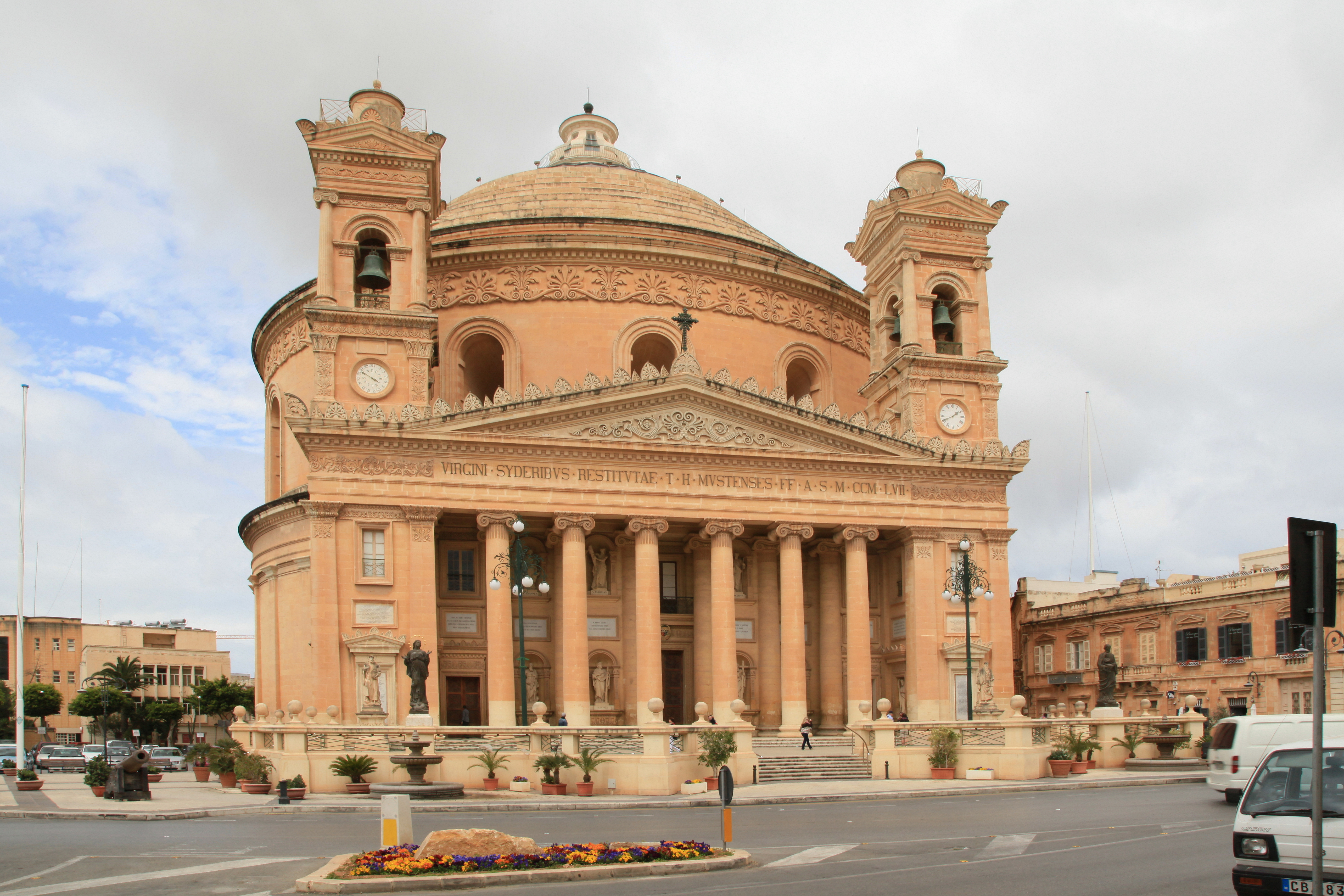 Rotunda of St. Marija Assunta at Triq il-Kbira in Mosta, Malta